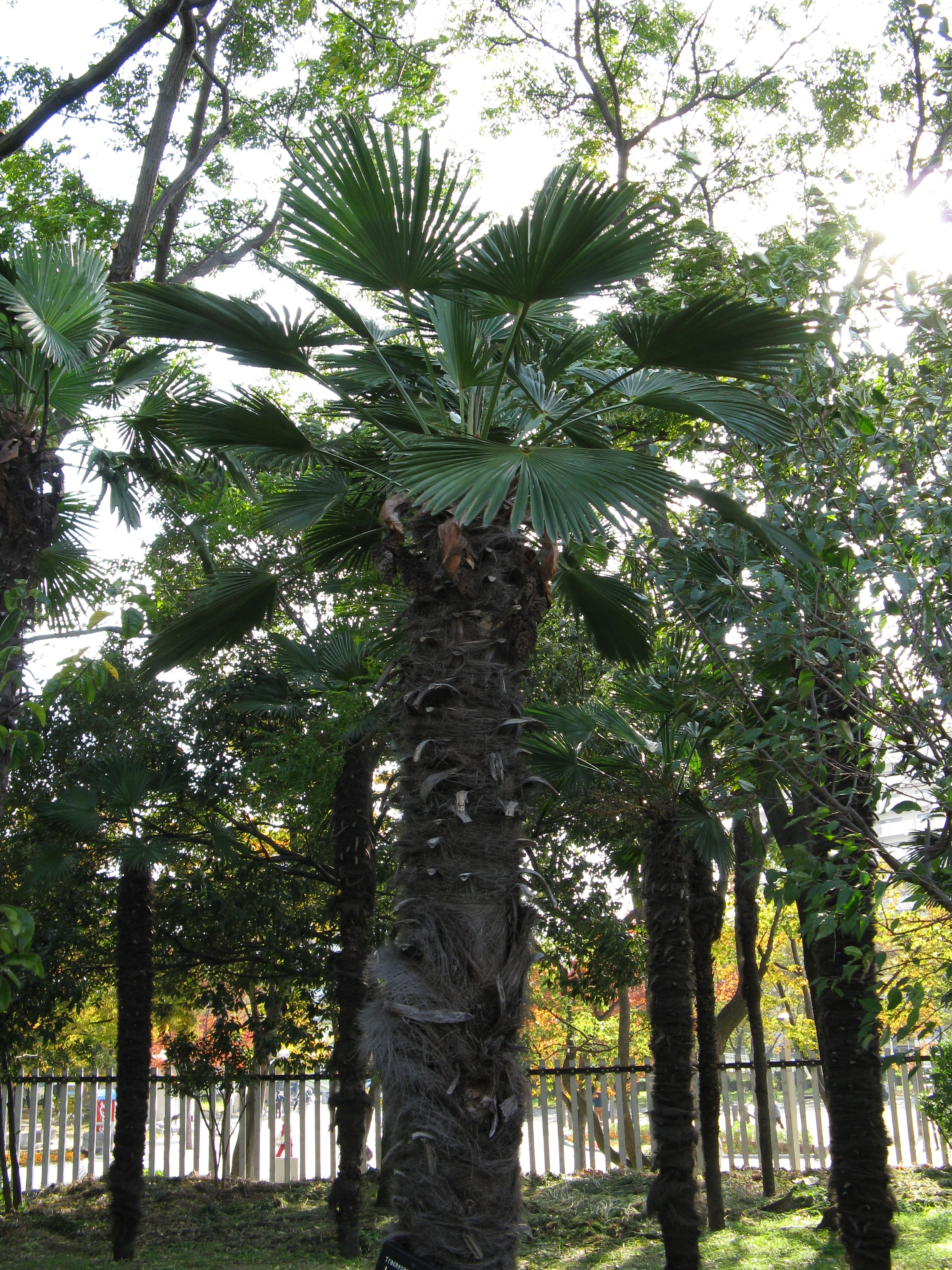 Trachycarpus wagnerianus